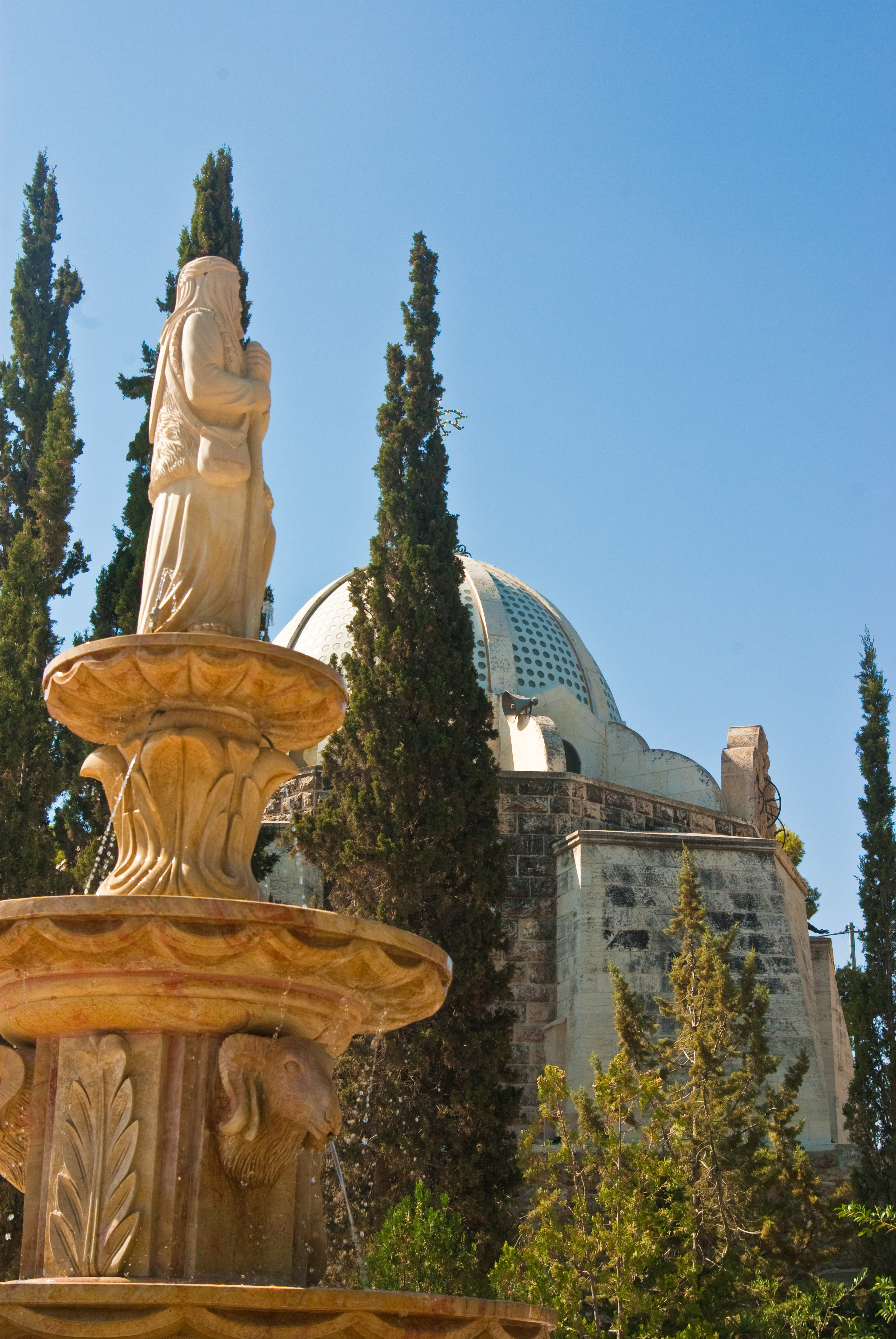 Roman Catholic Shepherds Field Chapel in Beit Sahour, Bethlehem